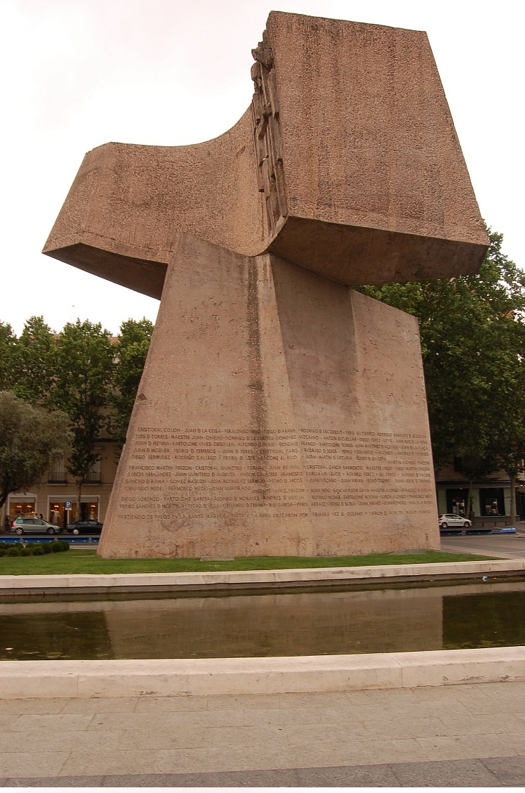 The Discovery. One of the three macro-sculptures of the Monument to the Discovery of America by Joaquín Vaquero Turcios (born 1933). Made of concrete. Inaugurated in 1977 at the Gardens of Discovery in Plaza de Colón ("Columbus Square"), Madrid (Spain).